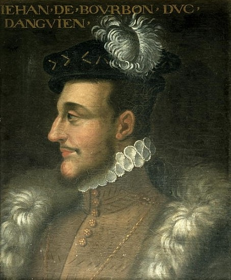 Portrait of Jean de Bourbon, comte de Soissons et d'Enghien (1528-1557)